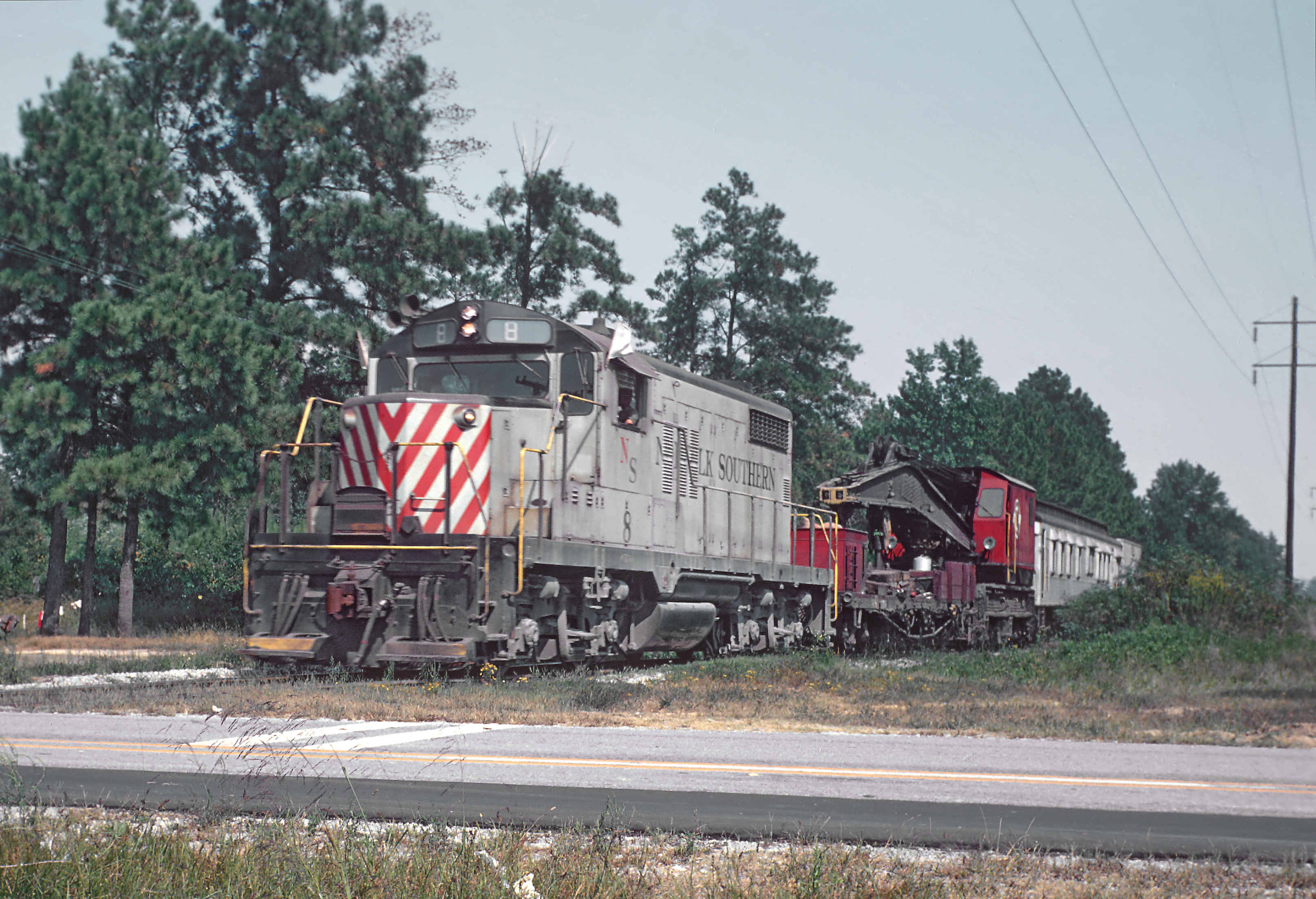 A Roger Puta Photograph